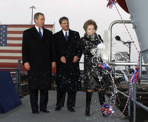 Nancy Reagan christens the USS Ronald Reagan